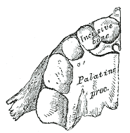 Development of the superior maxillary bone, by four centres. Inferior surface.